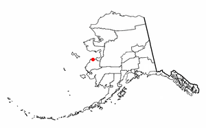 Adapted from Wikipedia's AK borough maps by Seth Ilys.